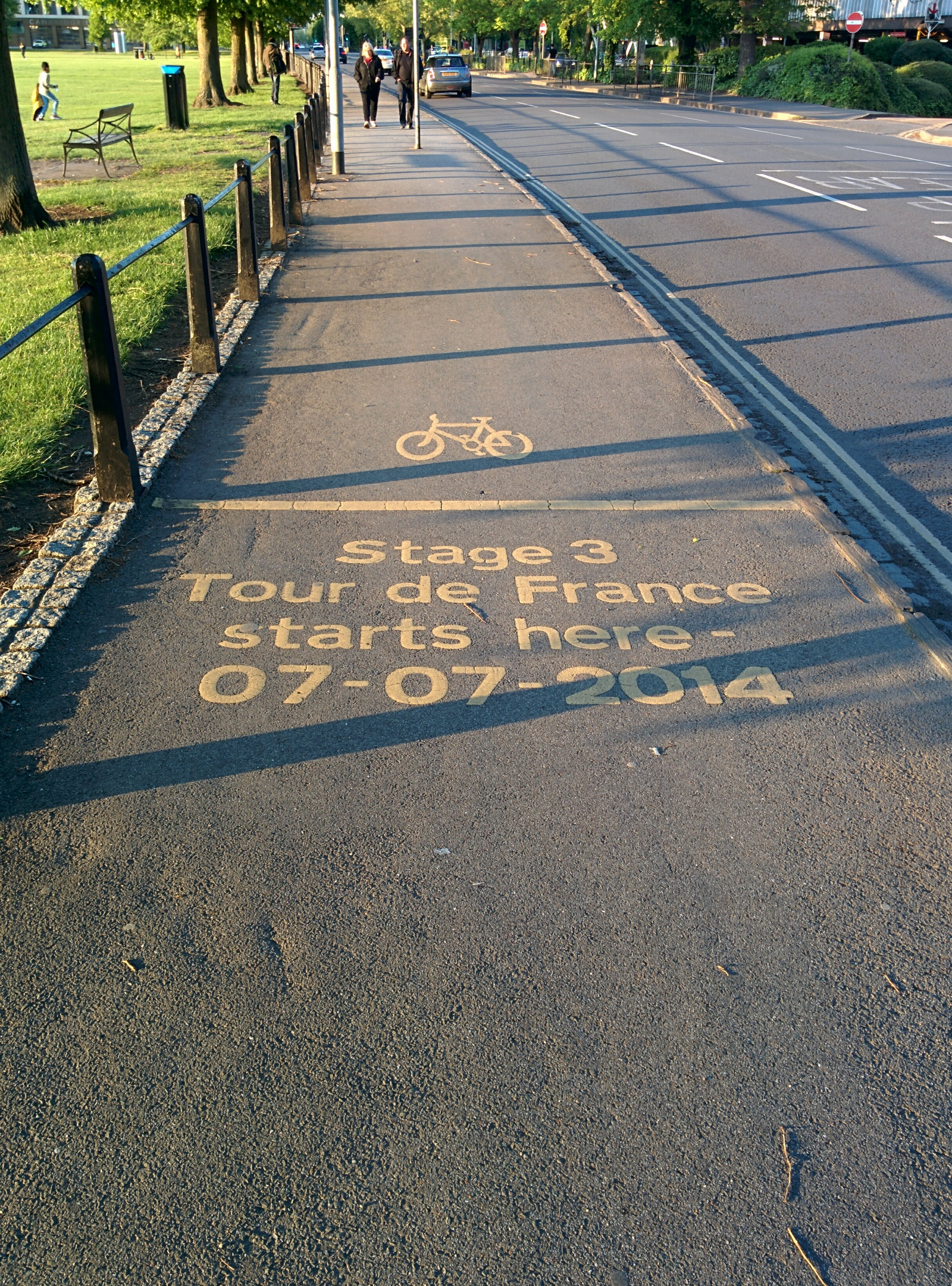 Pavement text indicating the start of Stage 3 of the Tour de France in Cambridge, UK, 7th July 2014. After the event the lettering was painted in longer lasting road paint as a record of the event.